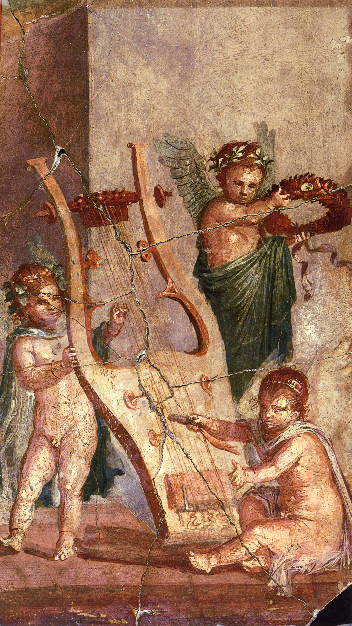 Herculaneum (deposit) - Cupids playing with a lyre. Roman fresco from Herculaneum (perhaps the Basilica) (detail).